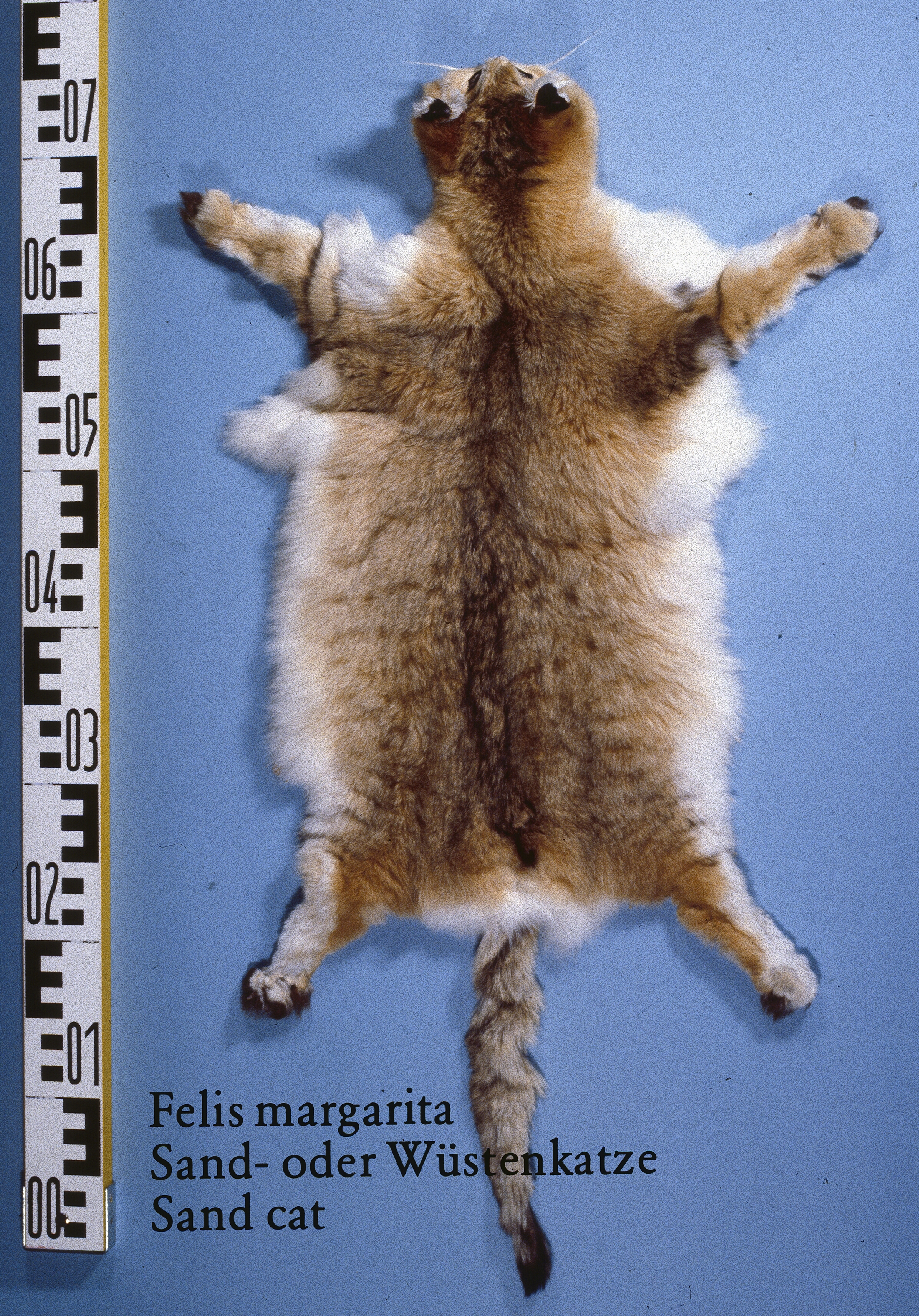 Sand cat fur skin (Felis margarita). Fur skin collection, Bundes-Pelzfachschule, Frankfurt/Main, Germany